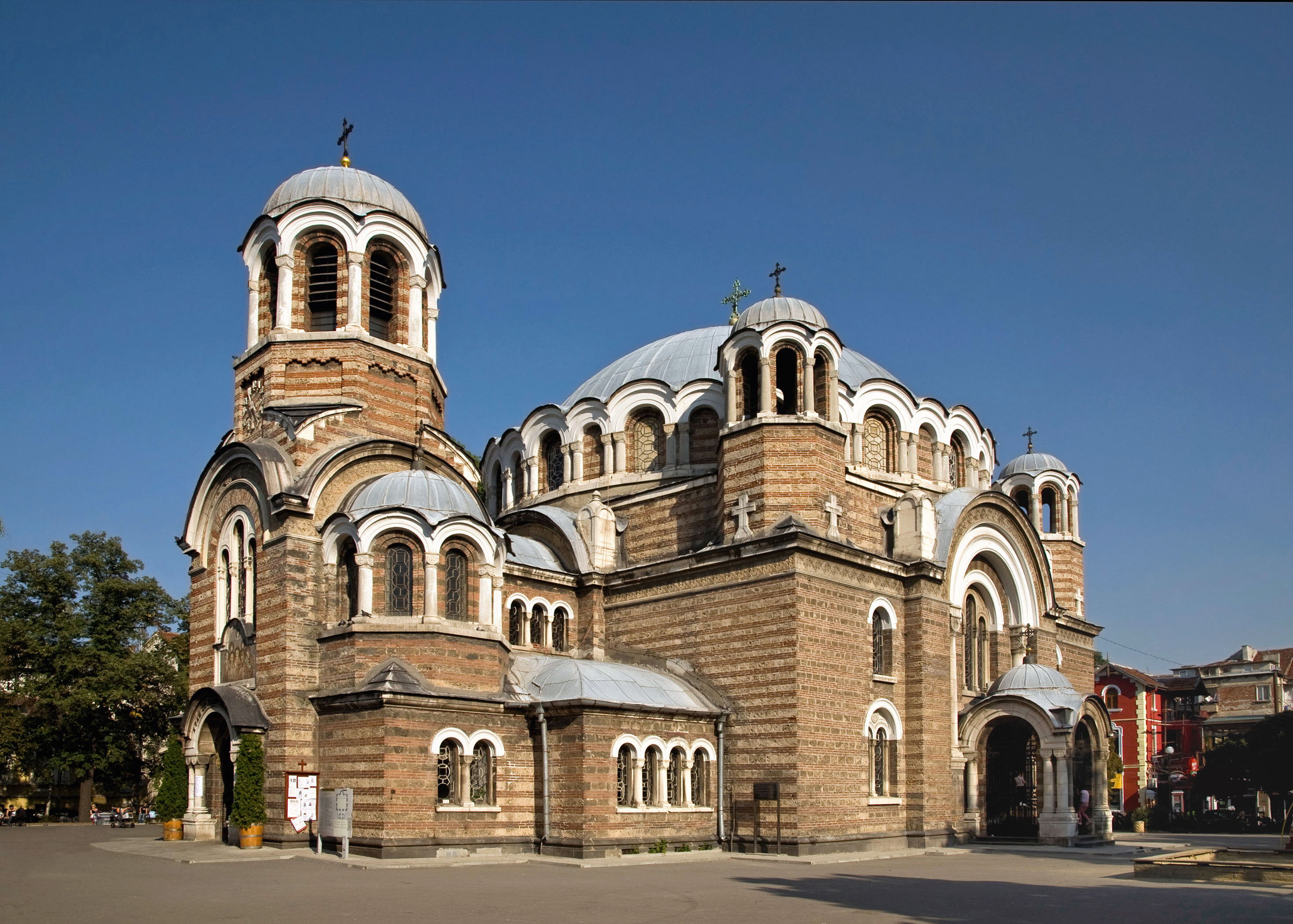 Sveti Sedmochislenitsi church, Sofia (The Seven Saints). Built (1901-1902) over an old building. Inaugurated 1903.